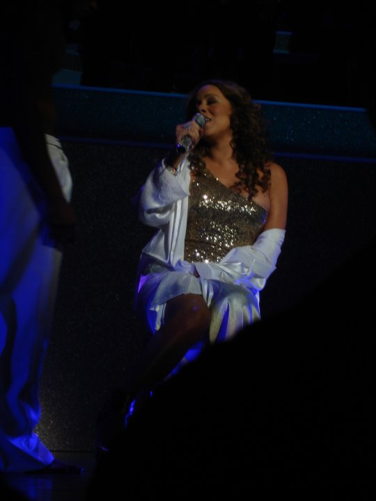 Mariah Carey performing live in Las Vegas in September 2009